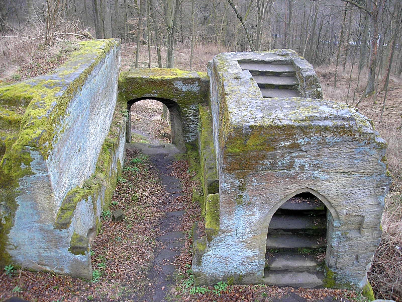 Rotenhan castle near Ebern (Lower Franconia, Germany). The gatehouse.